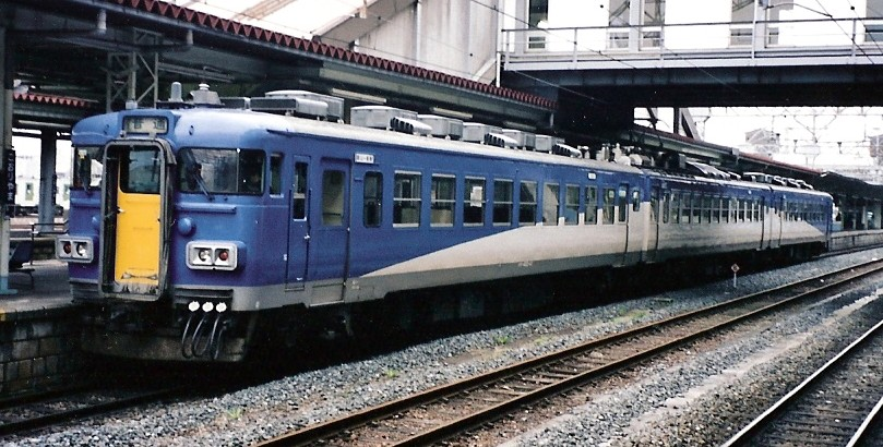 A JR East 455 series 3-car EMU at Koriyama Station in Senzan line livery